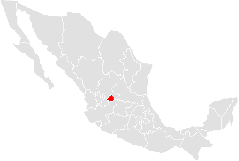 A map of the mexican state of Aguascalientes made by me